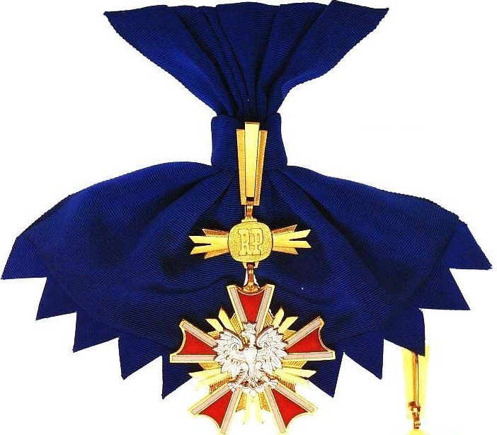 Order for Merits for Poland. The Grand Cross (Ist Class of an Order) The Highest Civilian Order in Poland for foreign citizens. Official Pattern